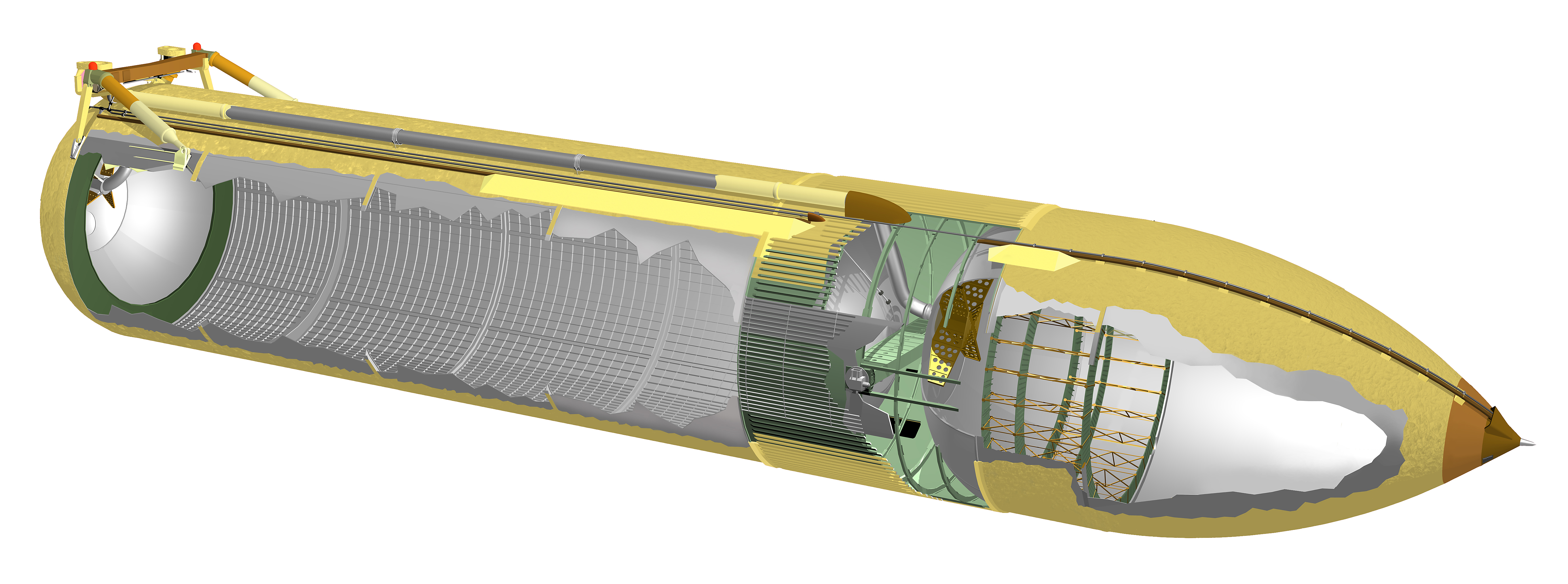 The External Tank - 154 feet in length with a diameter of 27.5 feet—is the largest single piece of the Space Shuttle. During launch the External Tank also acts as a backbone for the Orbiter and Solid Rocket Boosters to which it is attached. In separate pressurized tank sections inside, the External Tank holds the liquid hydrogen fuel and liquid oxygen oxidizer for the Shuttle’s three Main Engines. During launch the External Tank feeds the fuel under pressure through 17-inch-wide lines which then branch off into smaller lines that feed directly into the Main Engines. Some 64,000 gallons of fuel are consumed by the Main Engines each minute. Machined from aluminum alloys, the Space Shuttle’s External Tank is the only part of the launch vehicle that is not reused. After its 526,000 gallons of propellants are consumed during the first eight and one-half minutes of flight, it is jettisoned from the Orbiter and breaks up in the upper atmosphere, its pieces falling into remote ocean waters.